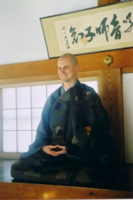 A picture of Zen Master Muho Noelke